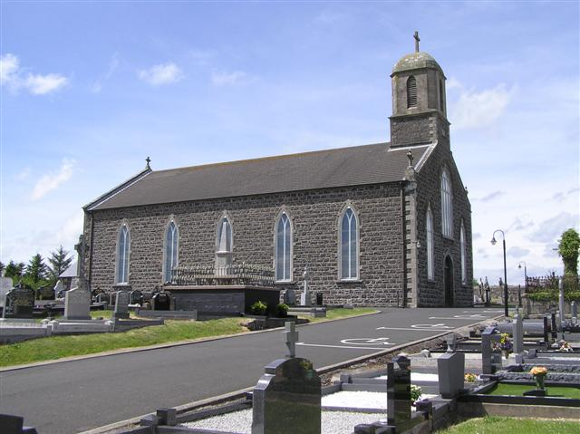 Drumnagarner RC Church It is located on the Drumnagarner Road, to the south-west of Kilrea